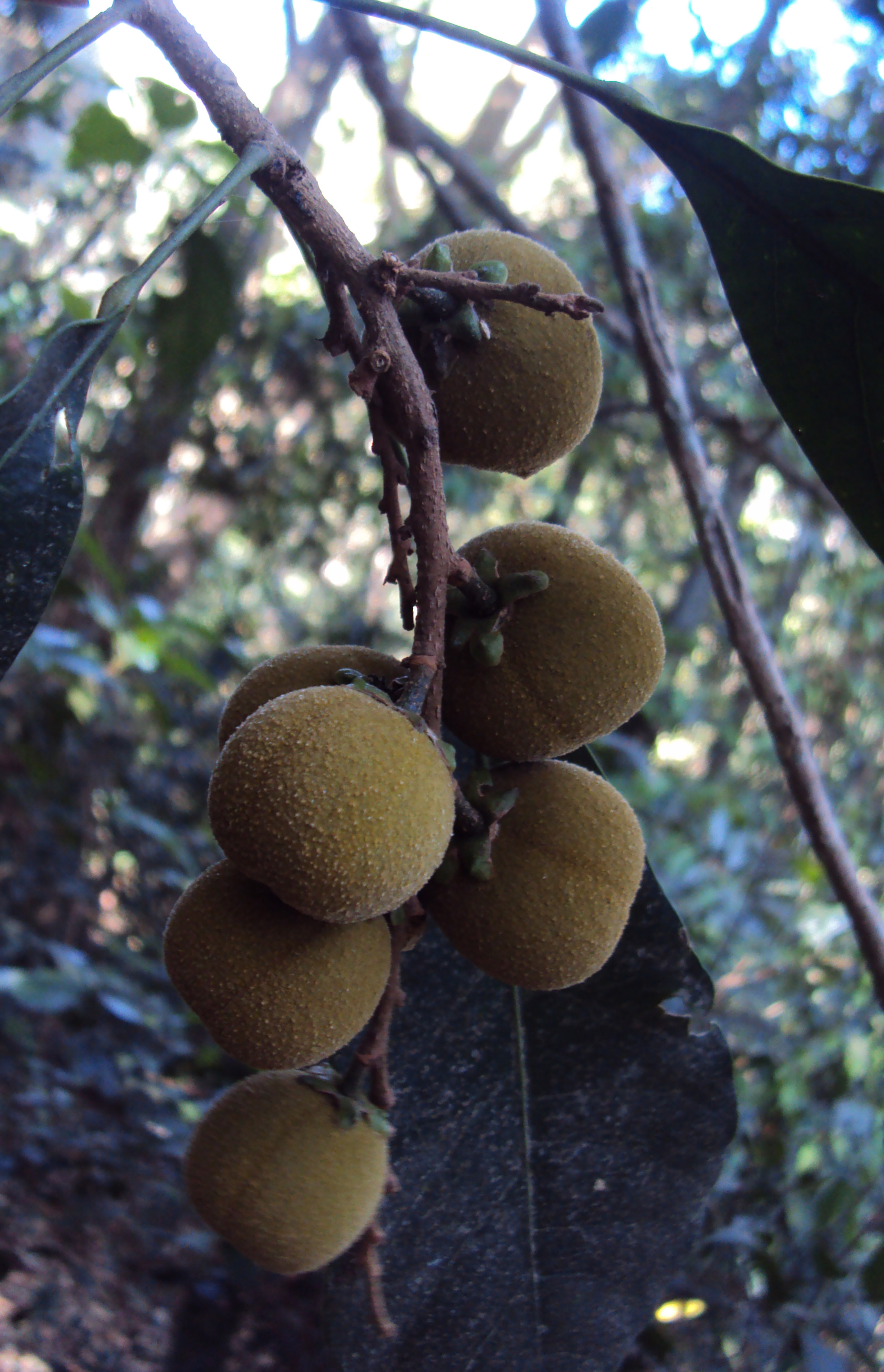 Paracroton integrifolius